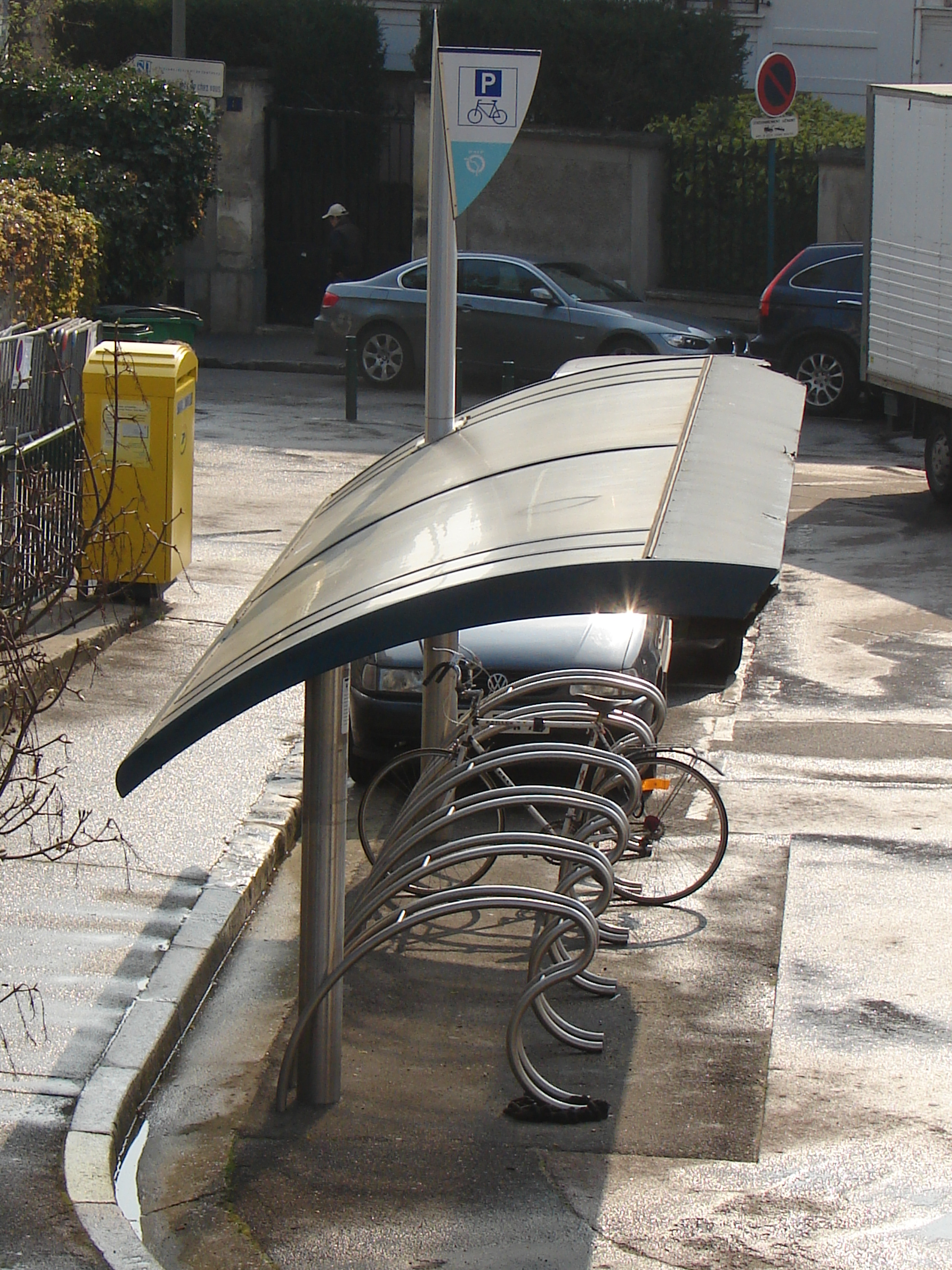 Bicycles parking